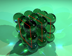 Simple Cubic Lattice showing atomic planes (marked in red) Image generated by Wikityke